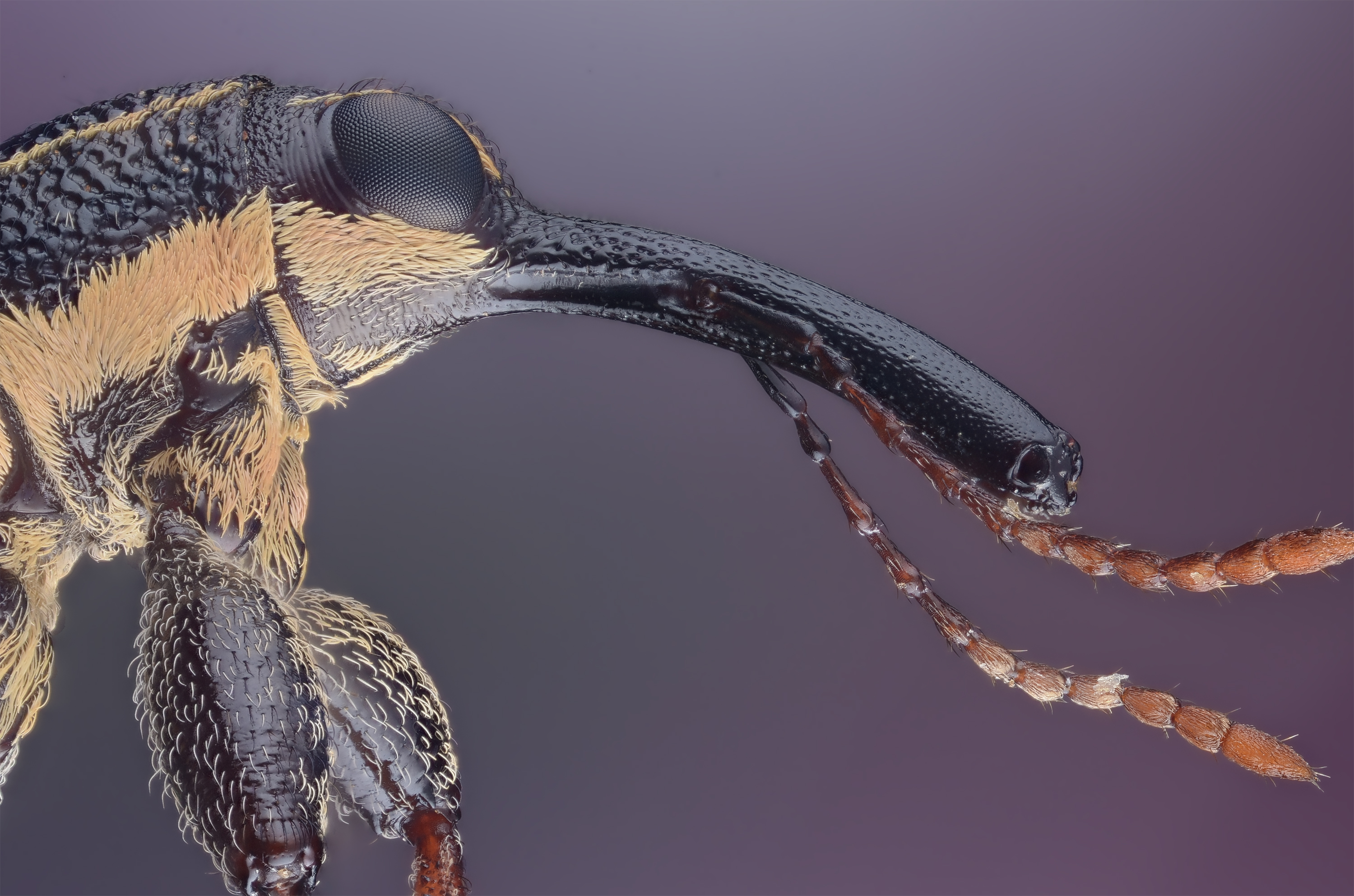 Focus stacked composite image showing head detail of Rhinotia hemistictus (Long Nosed Weevil). Specimen collected from Garigal National Park, Sydney NSW Australia.